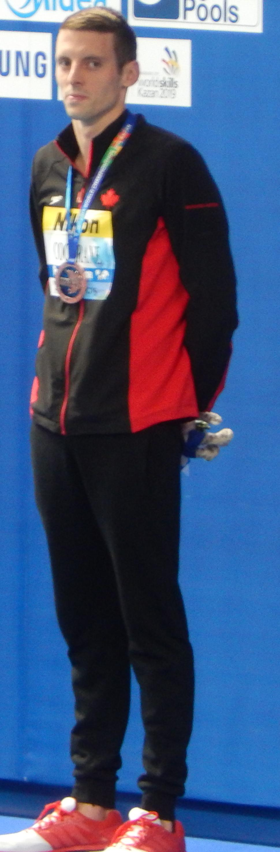 Bronze medallist at the men's 400 metres freestyle in Kazan 2015 Ryan Cochrane